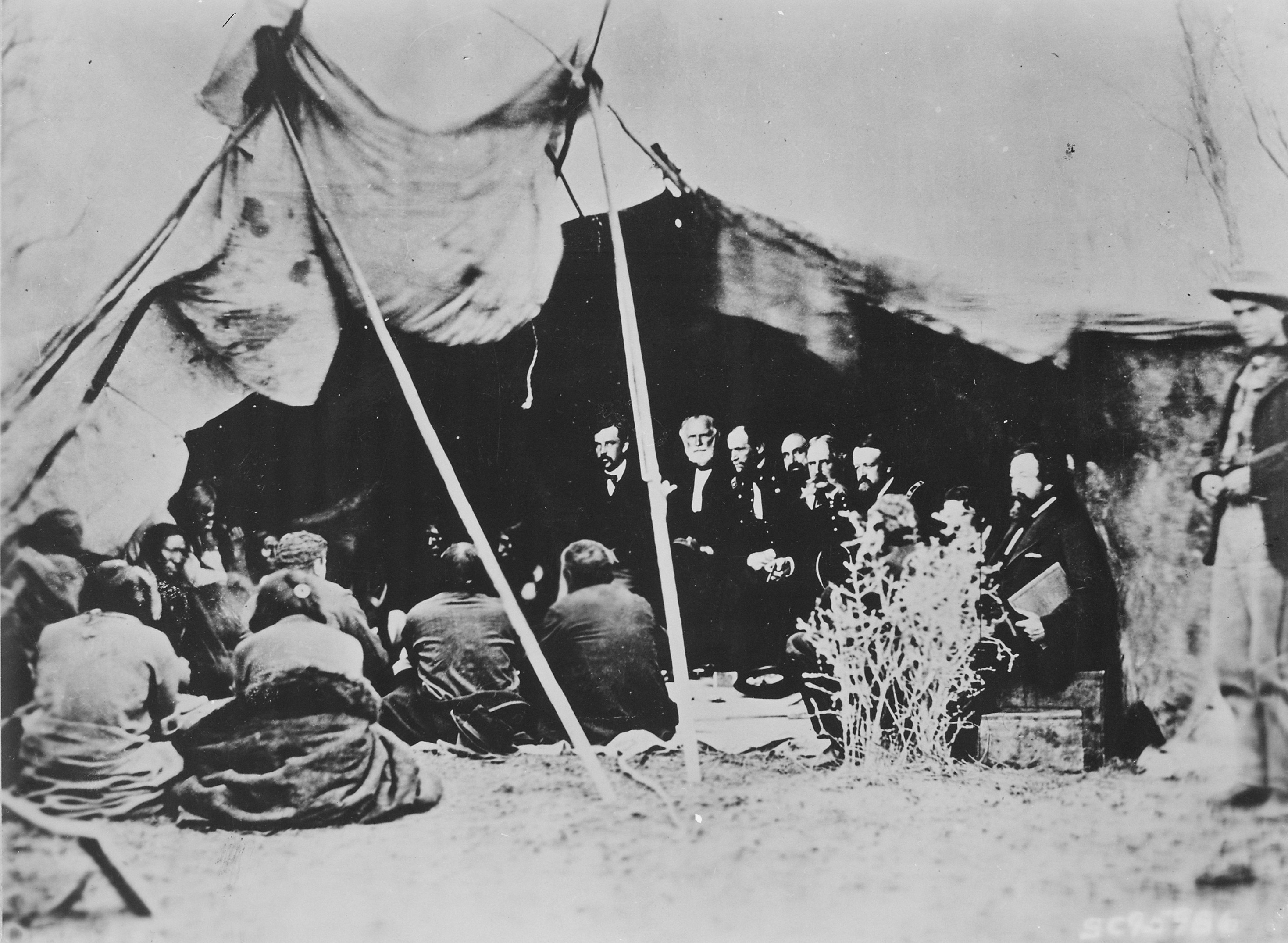 Scope and content: This item shows the signing of a peace treaty by William T. Sherman and the Sioux at Fort Laramie, Wyoming.